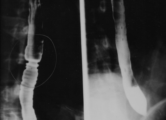 Barium swallow showing the effects of eosinophilic esophagitis.